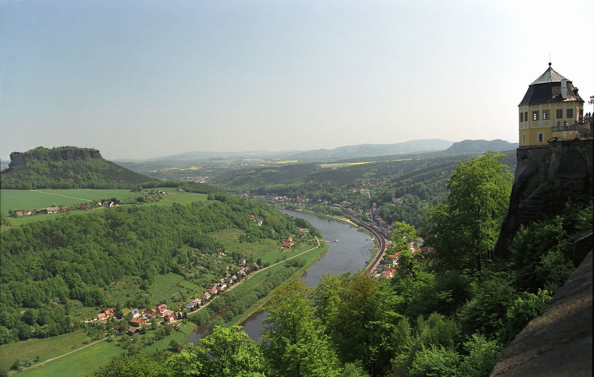 Fortress Königstein